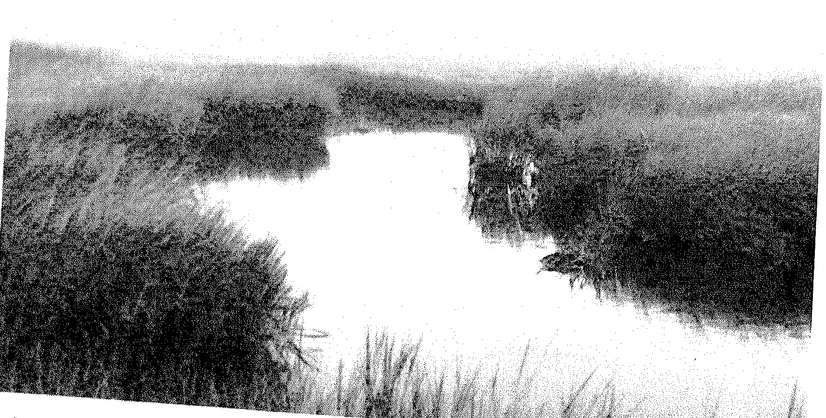 An image of the Great Sippewissett Salt Marsh during high tide